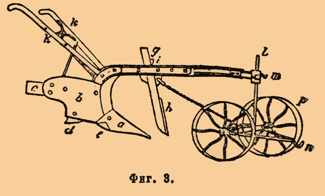 Illustration from Brockhaus and Efron Encyclopedic Dictionary (1890—1907)